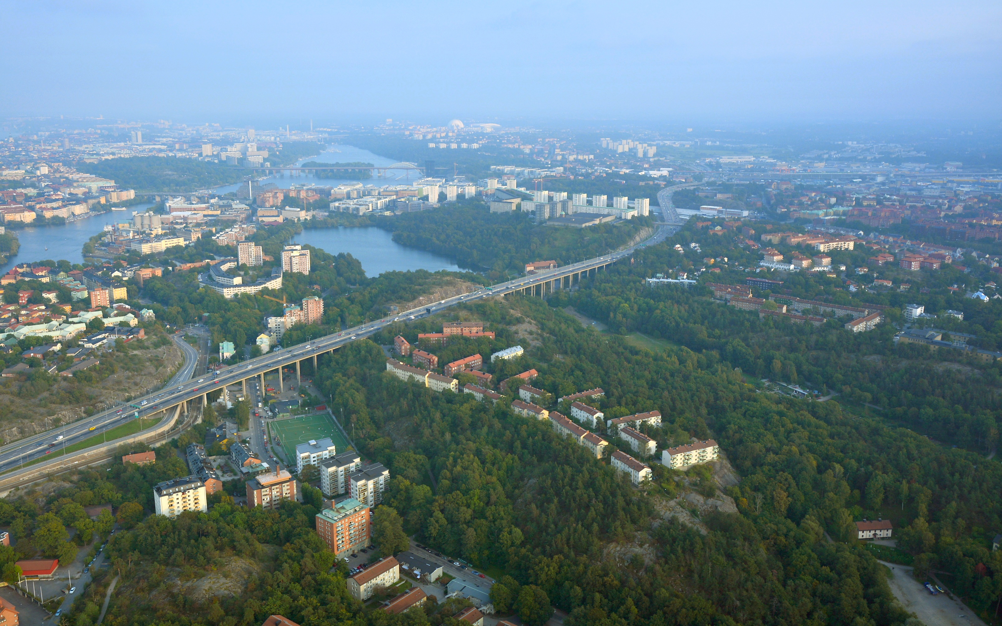 Essingeleden through Gröndal and Liljeholmen in southern Stockholm, Sweden.